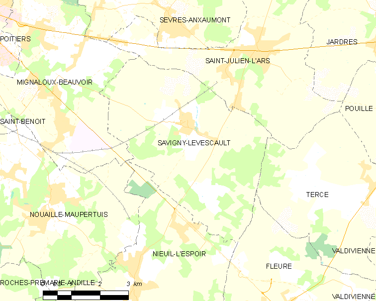 Map of French municipality Savigny-Lévescault